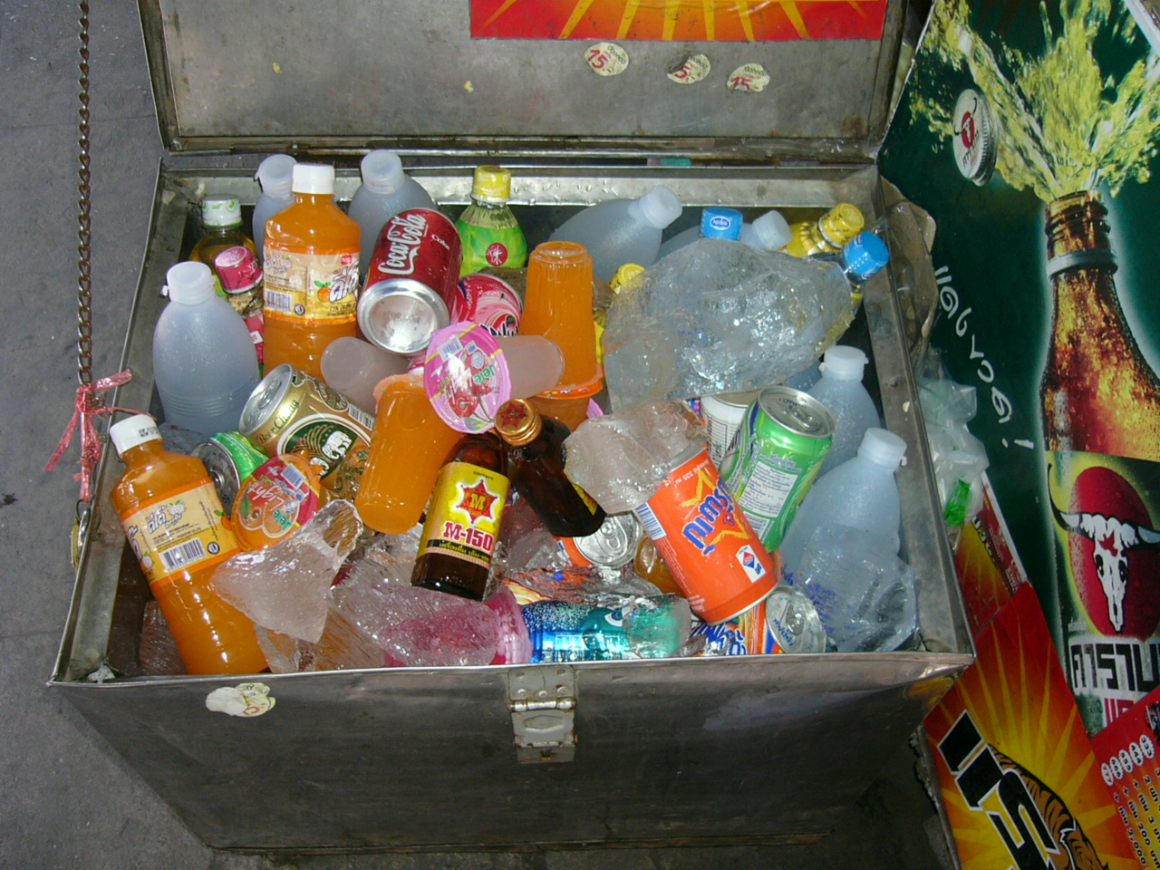 Thai bevarages chilled with ice cubes, seen in Sakon Nakhon.